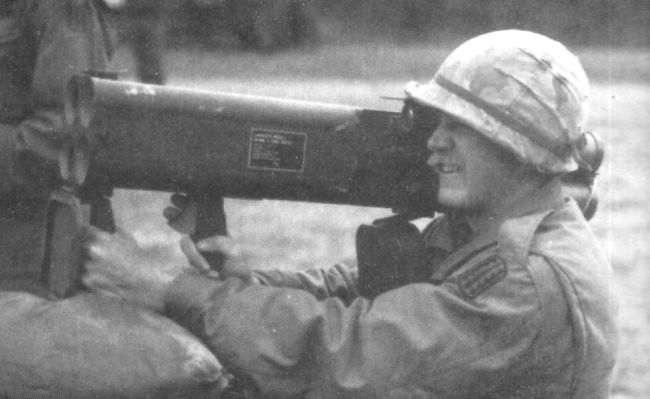 A soldier of the 197th Infantry Brigade (Separate), Fort Benning, Georgia aims a M202 FLASH four-barreled napalm rocket launcher.